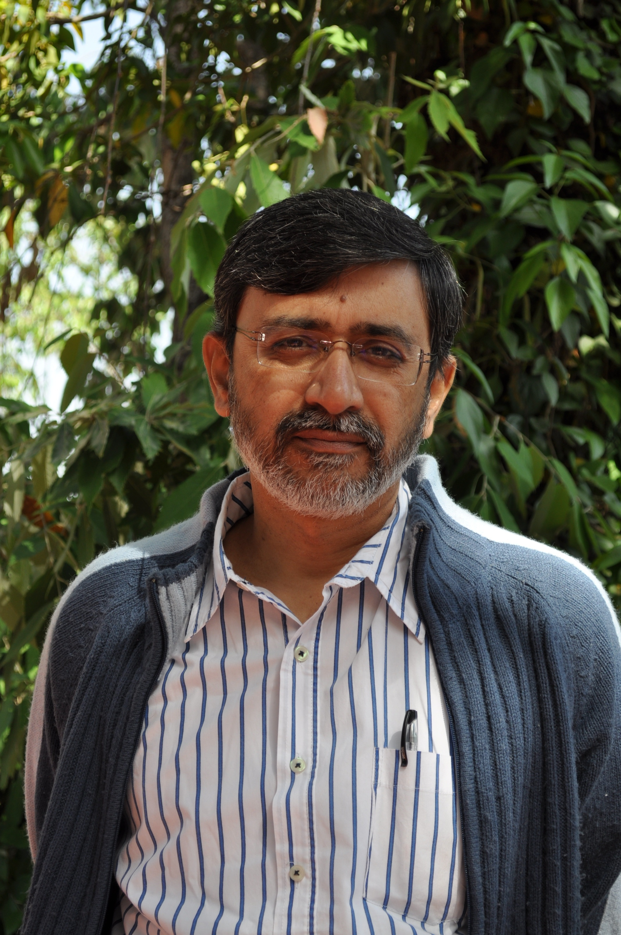 He is recipient of Translation Award for 2009 by Gandhi Memorial Trust, Nagpur, India, ‘Vishakha’ Award for the book of Poems - ‘Swagat’ (A Monologue)(1993), ‘Keshawsut’ Award for best poetry book of the year (2006) by The State of Maharashtra for the poetry book ‘Jagnyachya Pasaryat’(In the disarray of living) and ‘Sharadchandra Muktibodh’ Award for the same book. Balshastri Jambhekar Translation Award(2014) for ‘Sanshayatma’. He has co edited literary journal ‘Yugavani’.